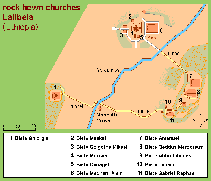 Map (rough) of Lalibela, Etiopia, own work composed from various mapreferences